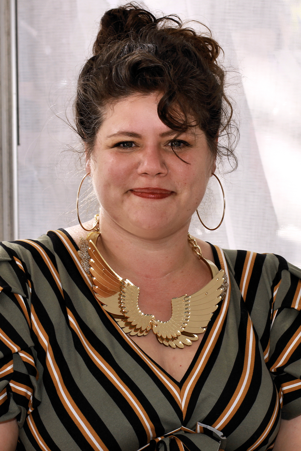 Author Rainbow Rowell at the 2019 Texas Book Festival in Austin, Texas, United States.